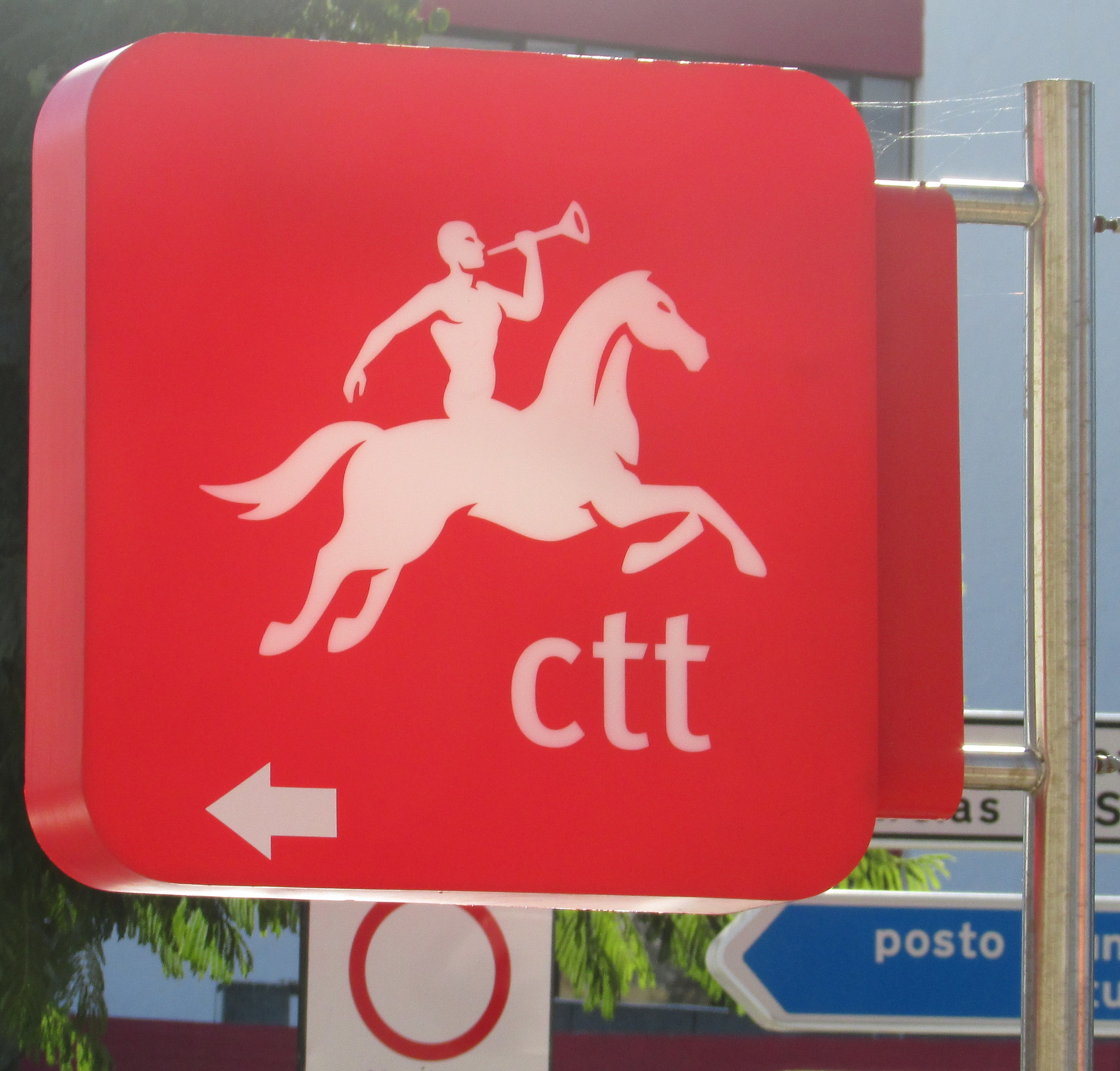 A Post office sign located on Avenida Dr Francisco Sà Carneiro in the neighbourhood of Areias de São João within the city of Albufeira, Algarve, Portugal.